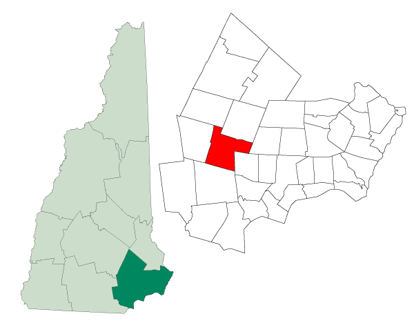 Map of a municipality in Rockingham County, New Hampshire